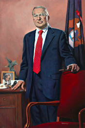 William D. Ford, US Representative from Michigan